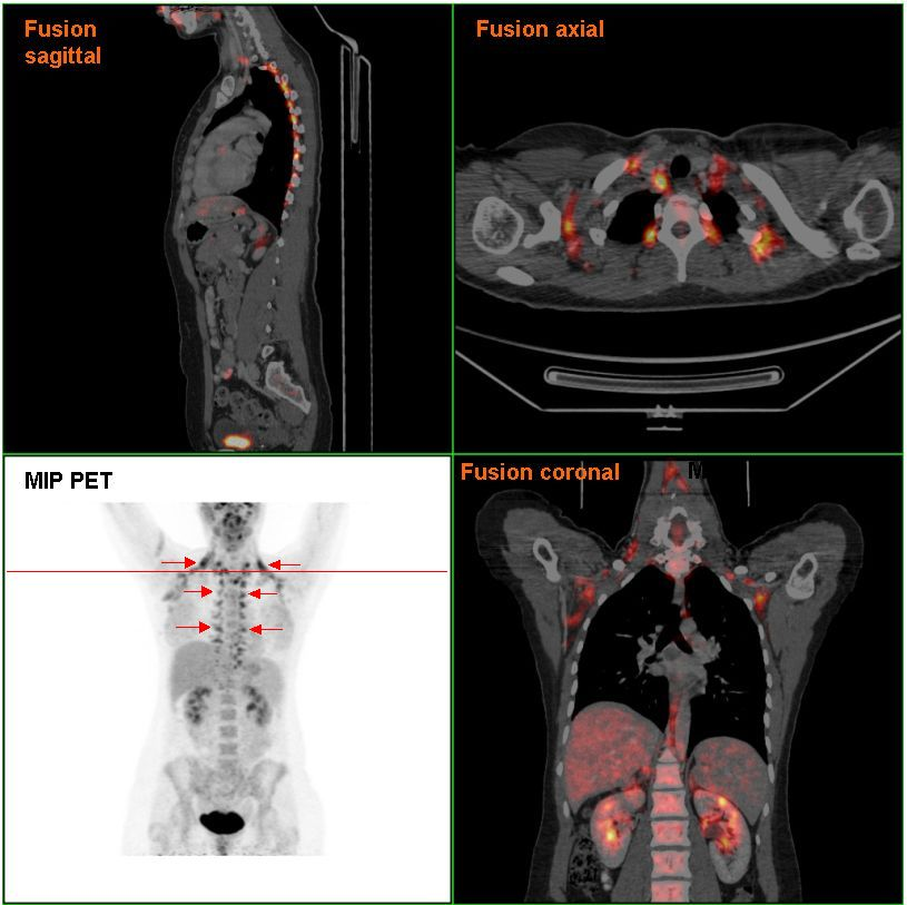 FDG PET/CT; brown fat is displayed as the patient was cold during the exam.